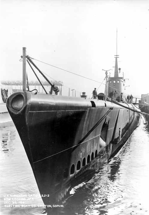 USS Gato; Bow view of the Gato (SS-212) looking aft, at Electric Boat Co., Groton, CT., 31 December 1941 immediately after launching. USN photo courtesy of .